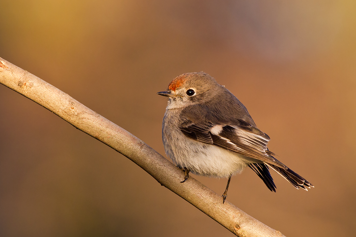 Strangways Vic.